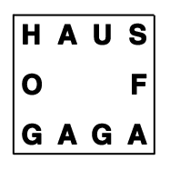 Official logo of the Haus of Gaga.